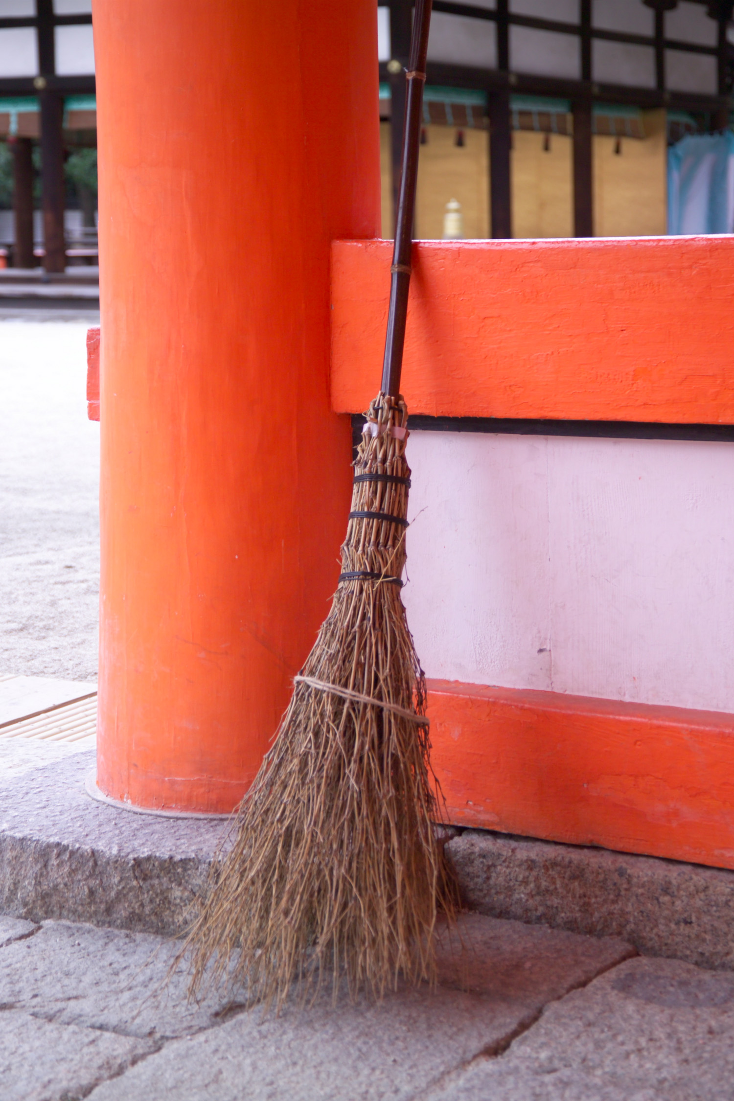 Broom at Shimogamo Shrine, Kyoto, Japan. I took this photo and contribute my rights in the file to the public domain; individuals and organizations retain rights to images in the file.